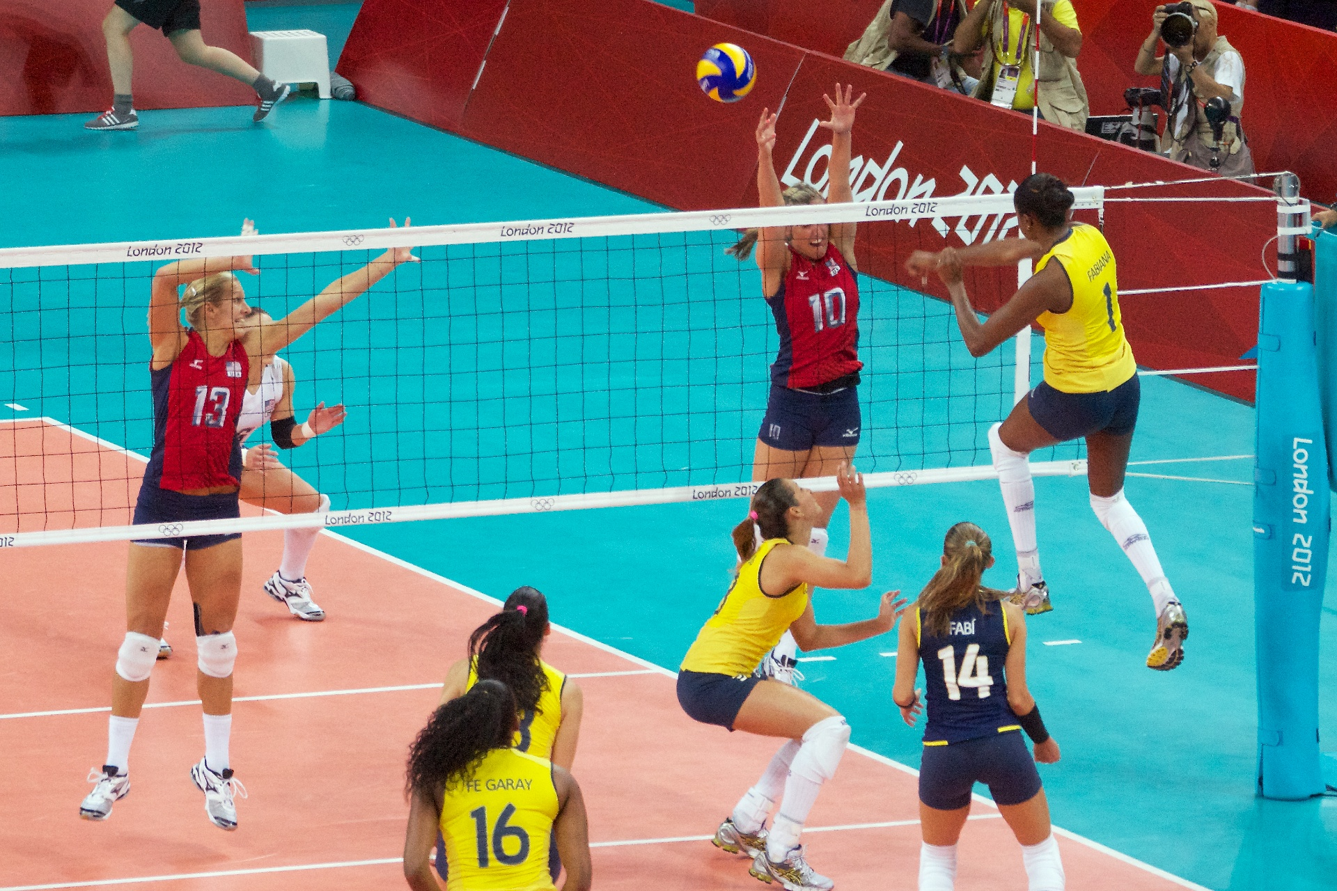 Olympics Volleyball at Earl Court